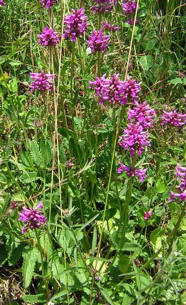 Stachys officinalis Manche - France Author : Augustin Roche Source : [1]